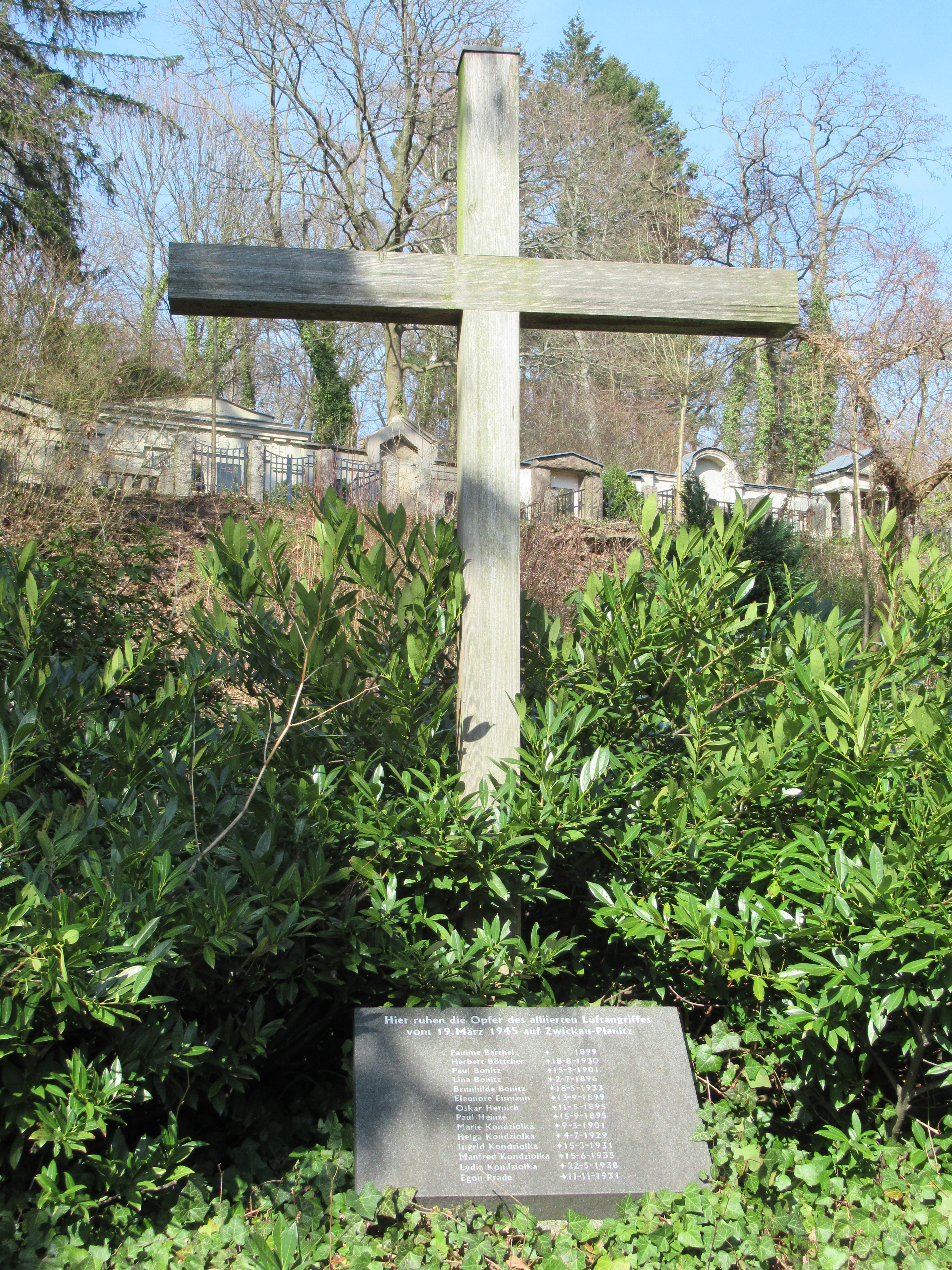 Zwickau-Planitz Bombing Victims at Cemetery